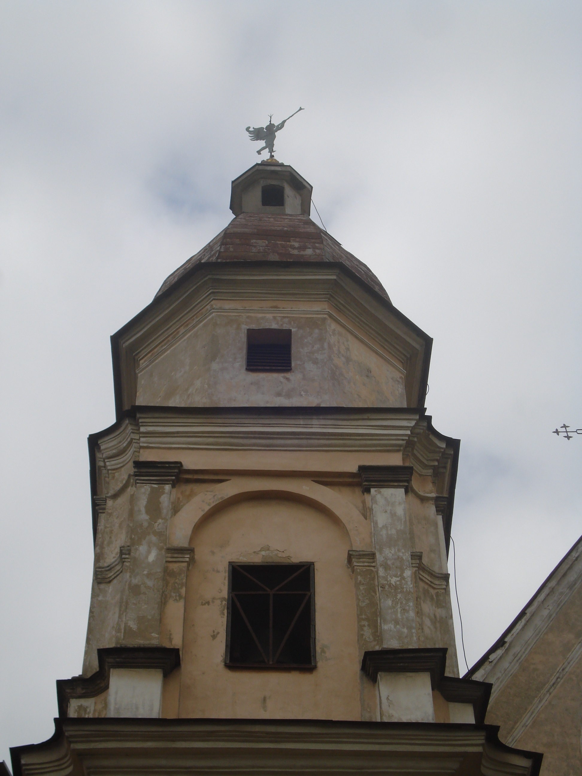 Belltower of the Church of the St Teresa in Vilnius